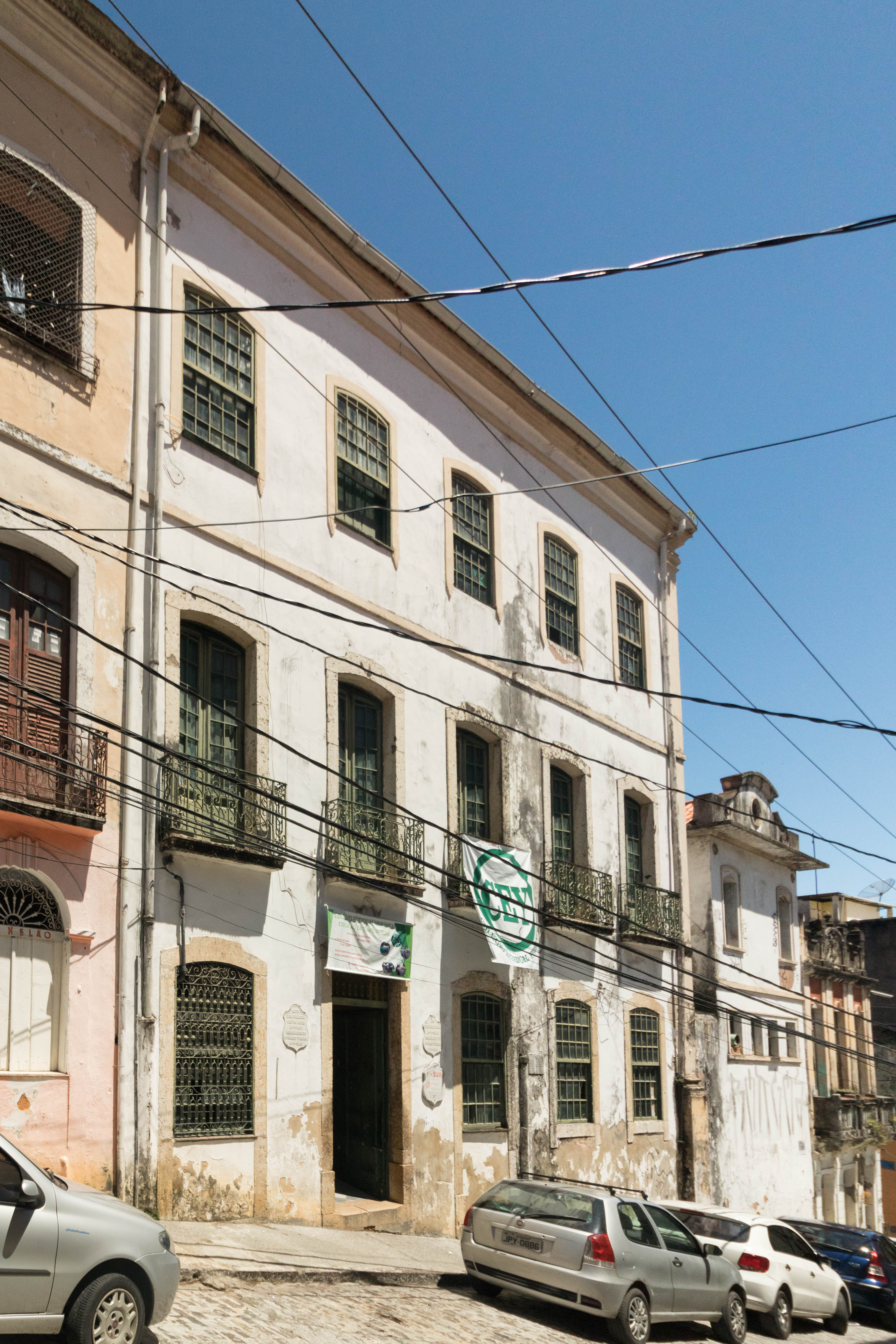 Solar Sodré, later the Casa de Castro Alves, now Colegio Estadual Ypiranga. Rua do Sodré 43, Dois de Julho, Salvador, Bahia, Brazil.